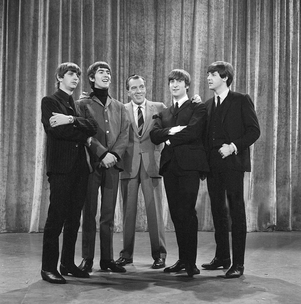 Photo of The Beatles with Ed Sullivan from their first appearance on Sullivan's US variety television program in February 1964. From left: Ringo Starr, George Harrison, Ed Sullivan, John Lennon, Paul McCartney.